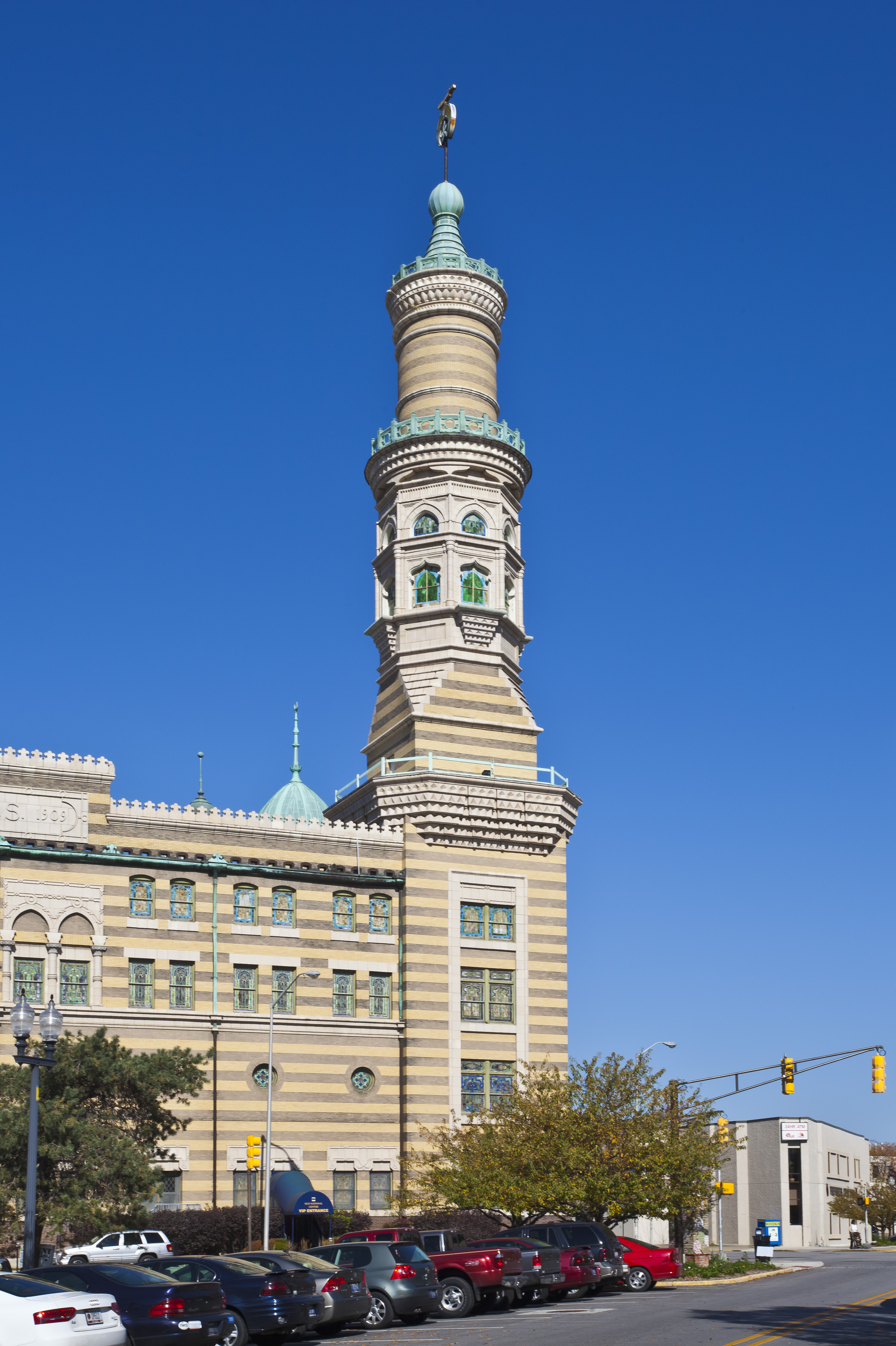 Murat Shrine, Indianapolis, USA